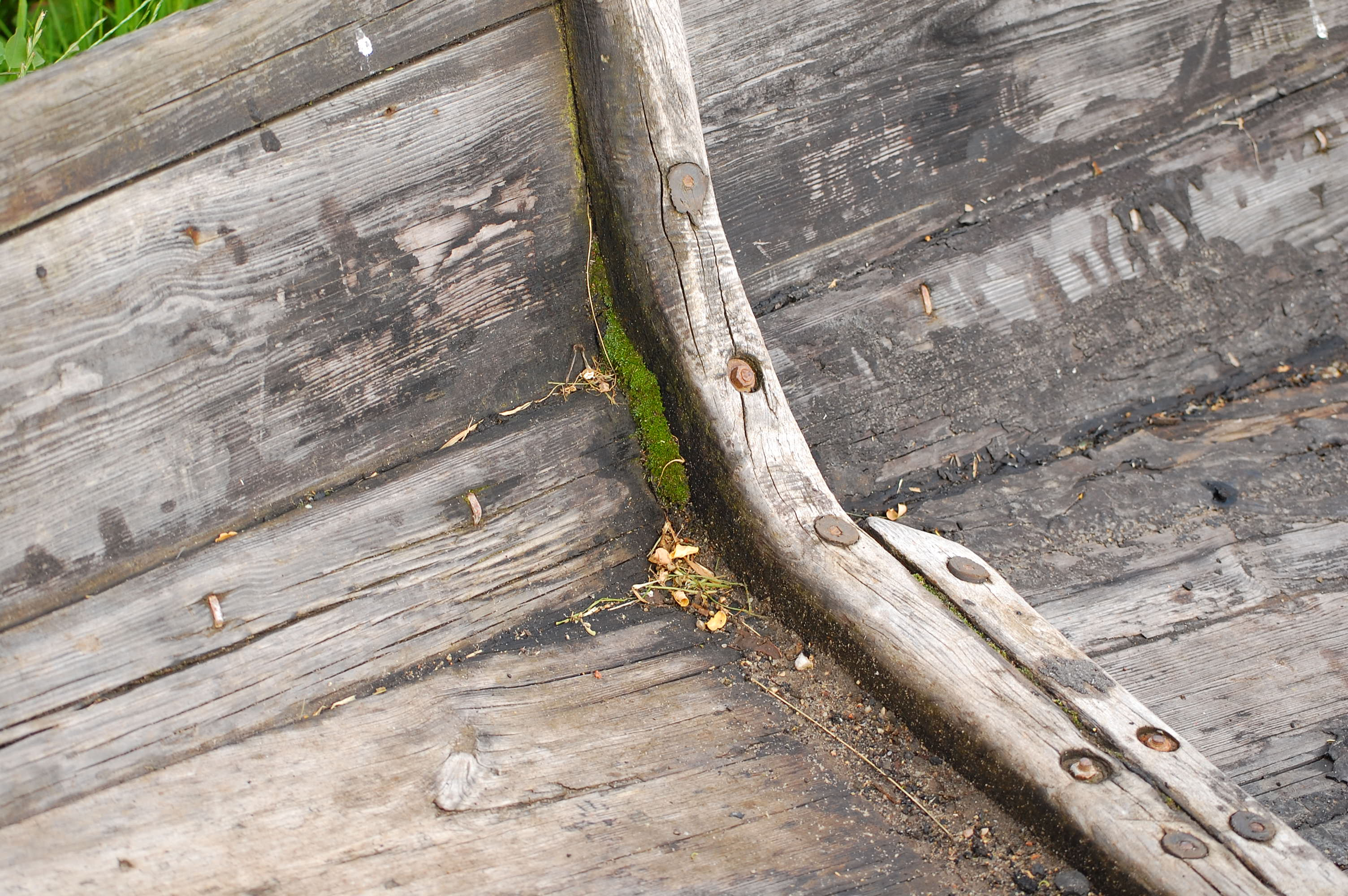 Traditional wooden boat design elements